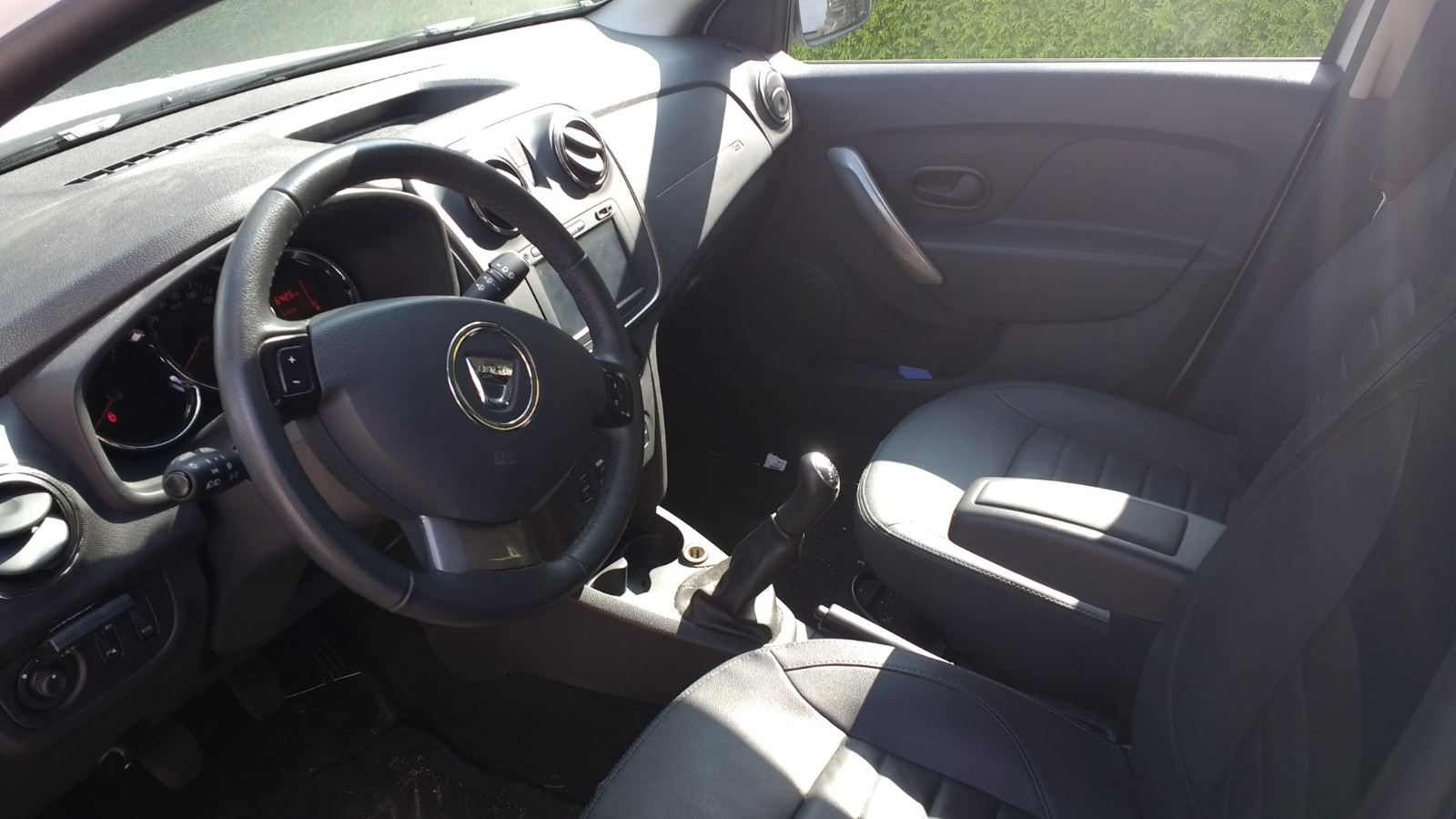 CAR pic4